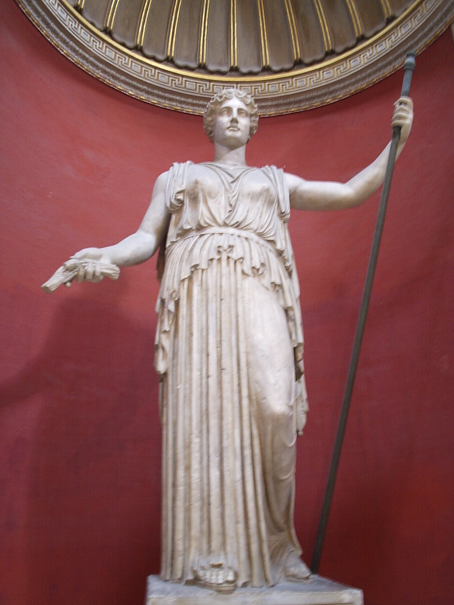 A Colossal Statue of Ceres, identified by the harvest grain in her right hand. From the Vatican Museums, Rome, Italy. (March 2005)